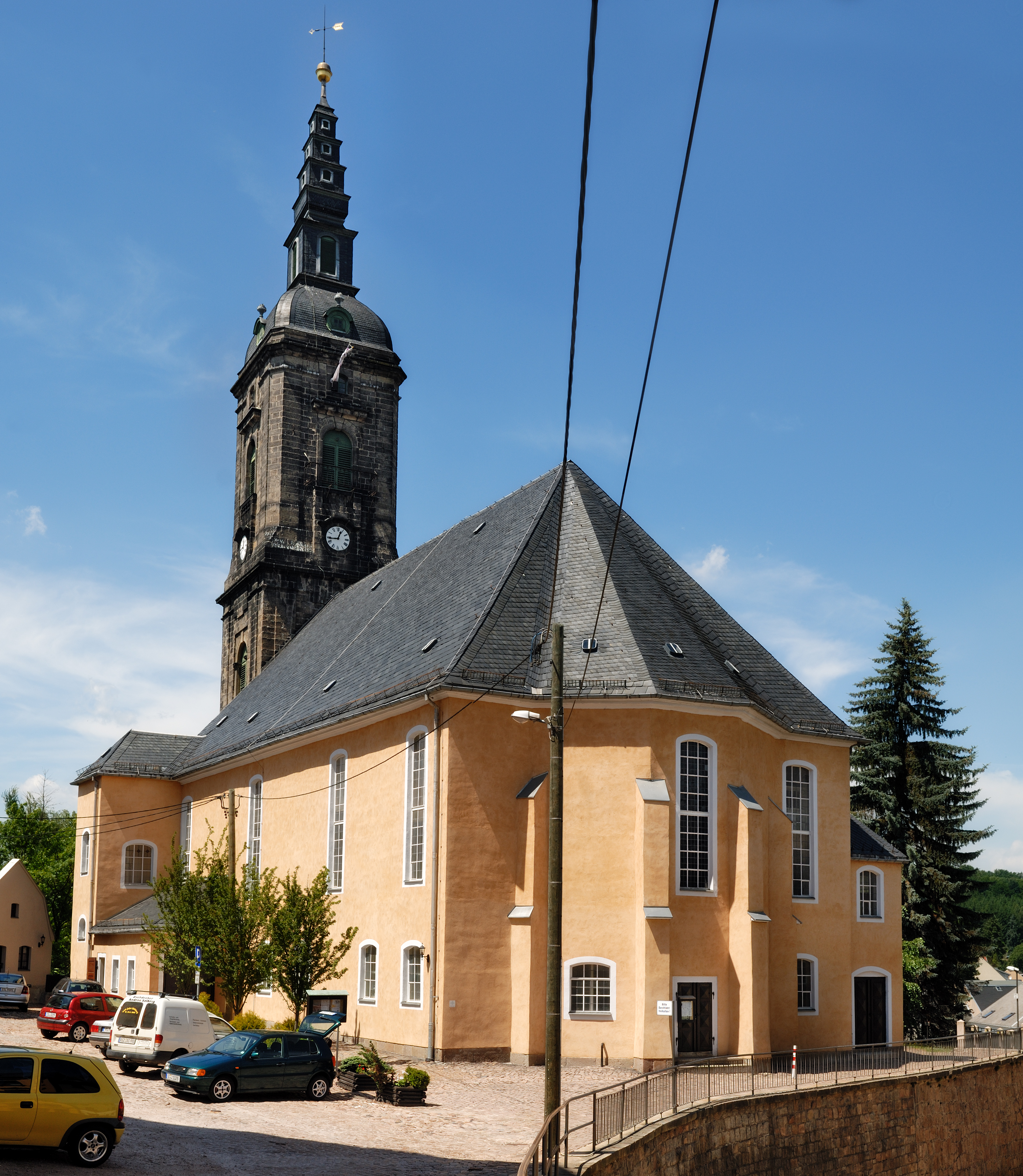 This image shows the St. Margarethenkirche ("Margarethen church") in Kirchberg, Saxony, Germany. It is a two segment panoramic image.